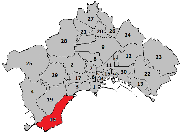 Posillipo in Naples